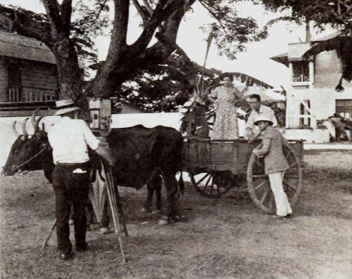 Still from the production of the American drama film Love's Redemption (1921) with Norma Talmadge, Harrison Ford, and film director Albert Parker, with J. Roy Hunt behind the camera, on page 81 of the December 18, 1920 Exhibitors Herald.